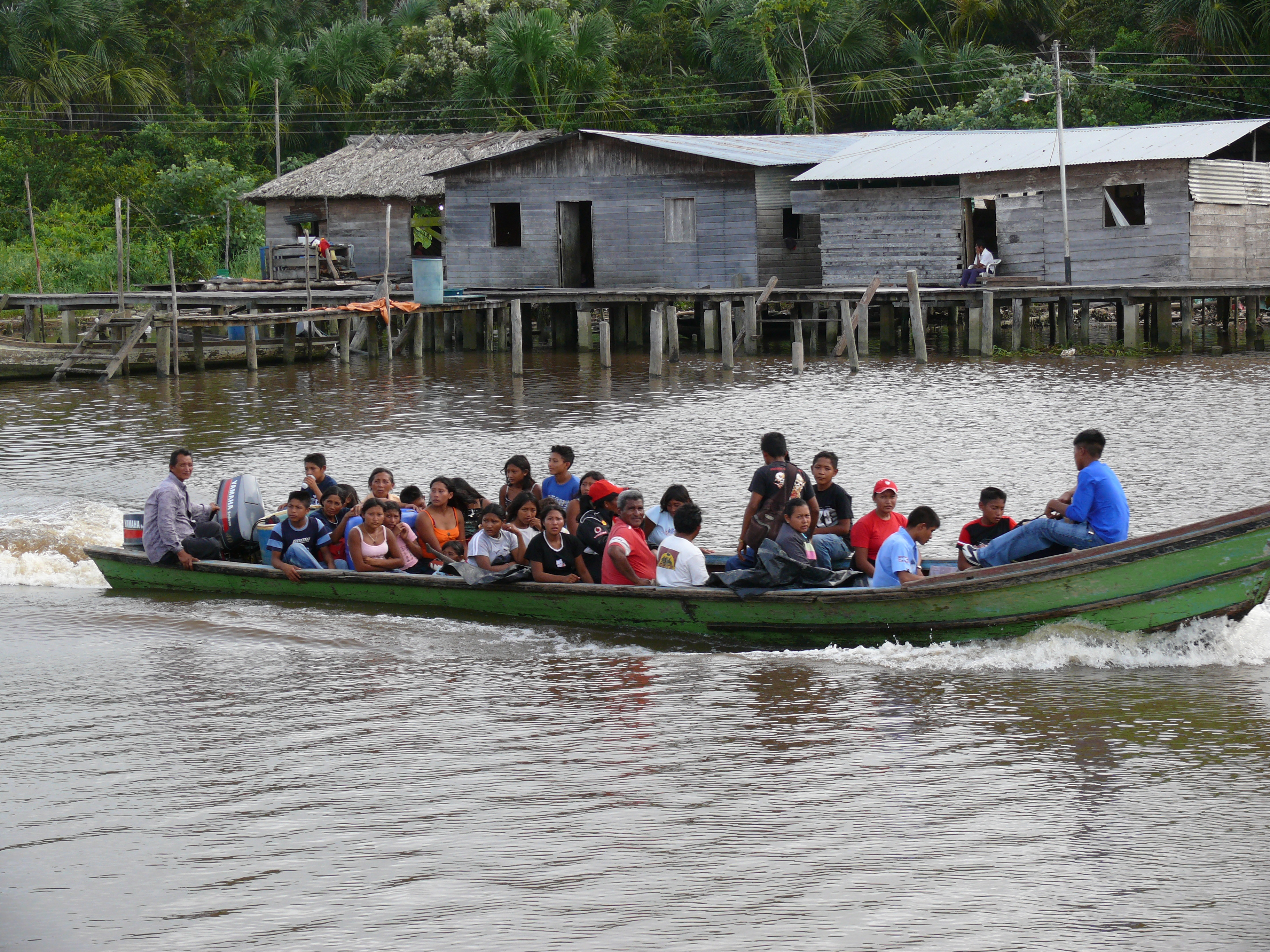 Curiapo, Delta Amacuro, Venezuela.